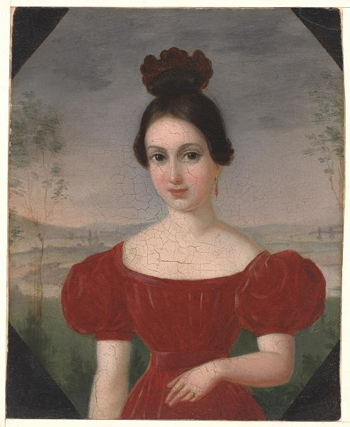 Painting: Portrait of Marie Louis Tetu, by François Fleischbein. Current location: Dallas Museum of Art